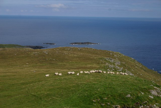 Rubha Cuabhaig cape at Barra Head, Outer Hebrides, Scotland